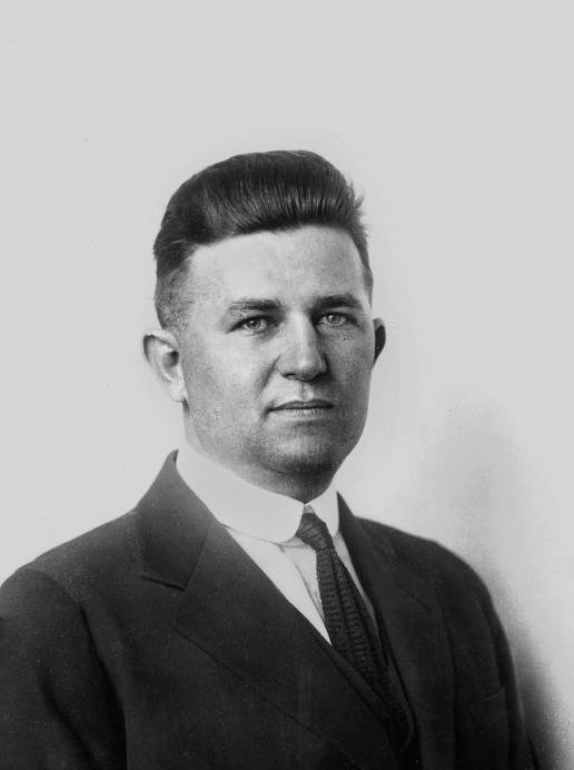 Constable Francis Eric Bischof in 1931